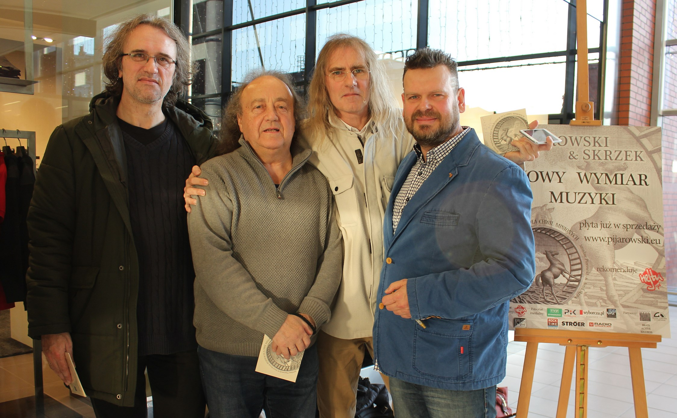 Promocja płyty "Requiem dla chwil minionych"